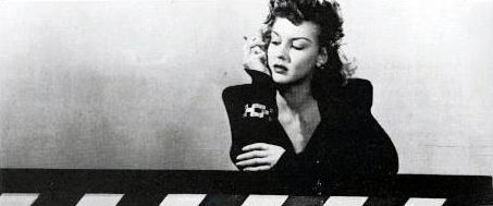 Detour, featuring Ann Savage